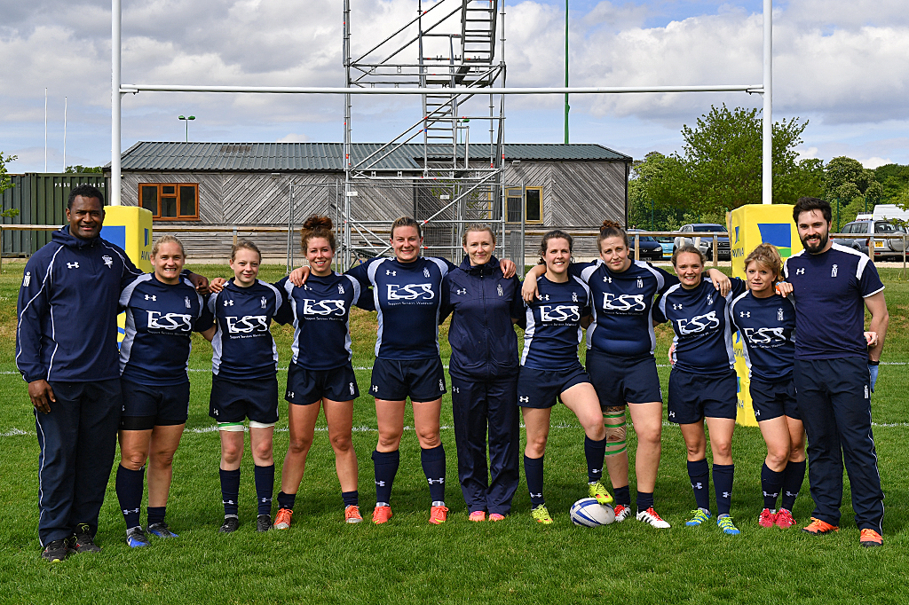 13 May 17 - Hartpury, Gloucestershire, England, UK. Rugby. Hartpury College 7s Competition. Royal Navy Rugby Union Senior Women's VII. The RN team was making history as the very first women's 7s representative side. Lots of good things with lots of potential. The future is Navy Blue.